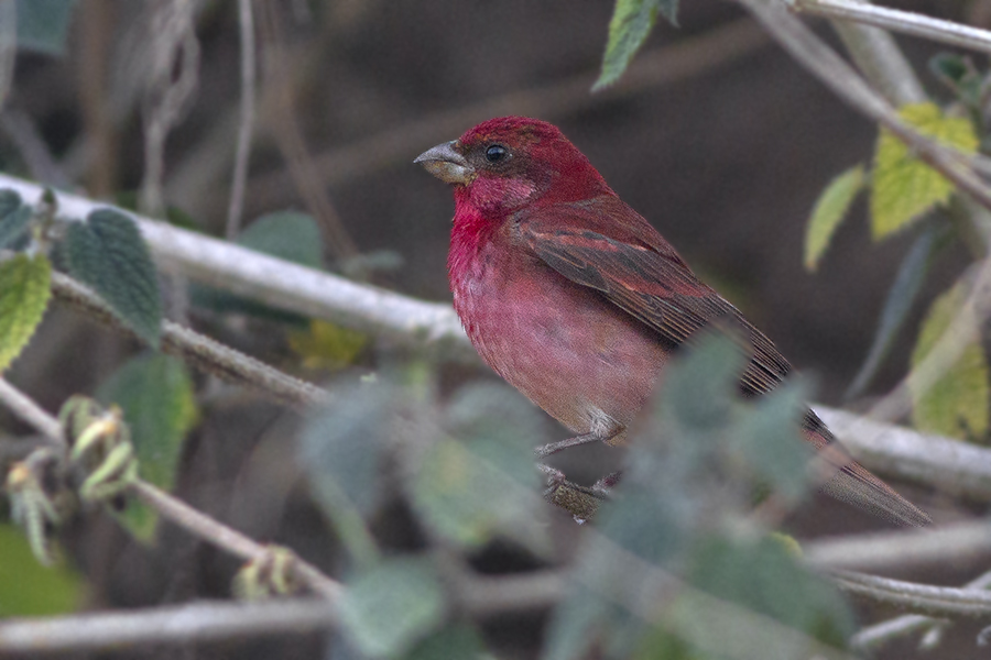 The species Common Rosefinch had been photographed during the birding tour of GoingWild in Neora Valley National Park in Darjeeling district of West Bengal, India on 30.04.2016.